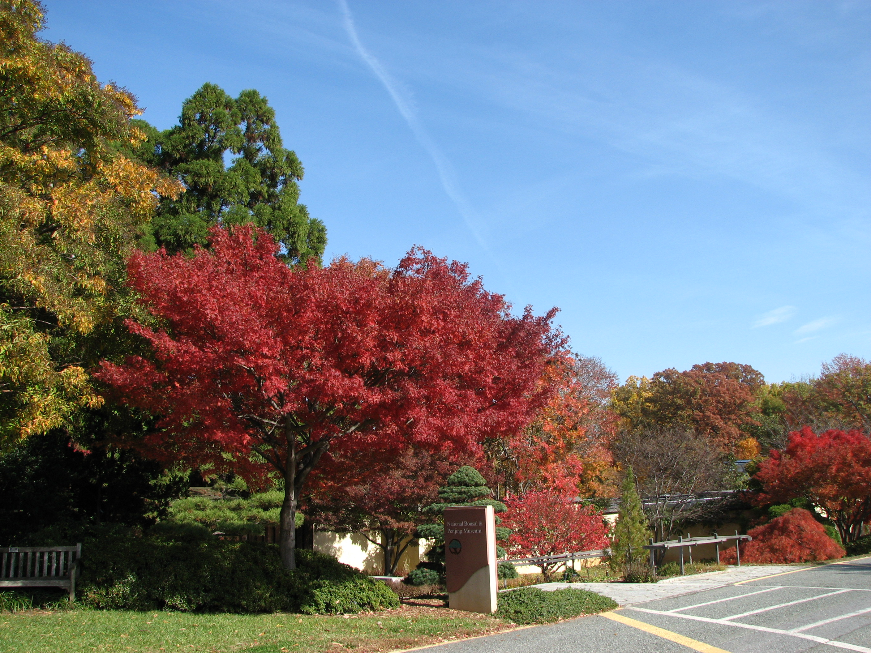 United States National Arboretum, Washington DC